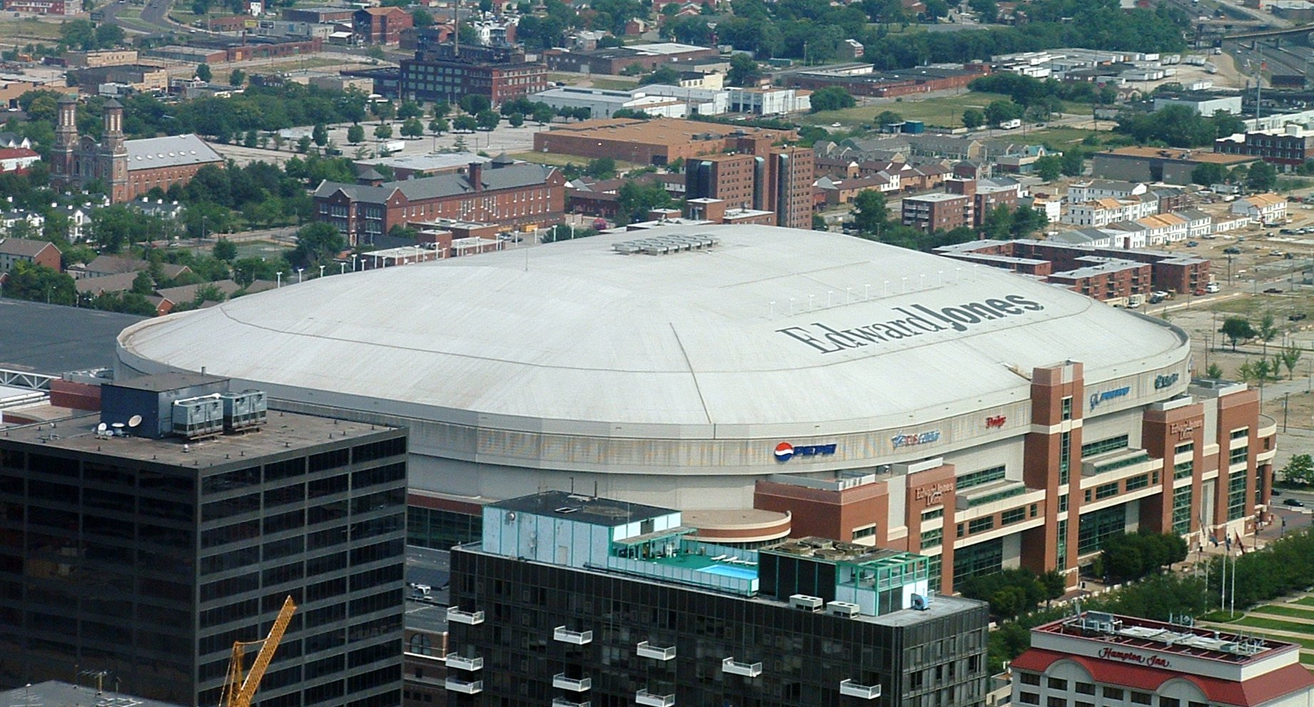 The Edward Jones Dome in St. Louis, Missouri. Photographed June 15, 2006 from the Jefferson National Expansion Memorial, St. Louis, Missouri by Kelly Martin.